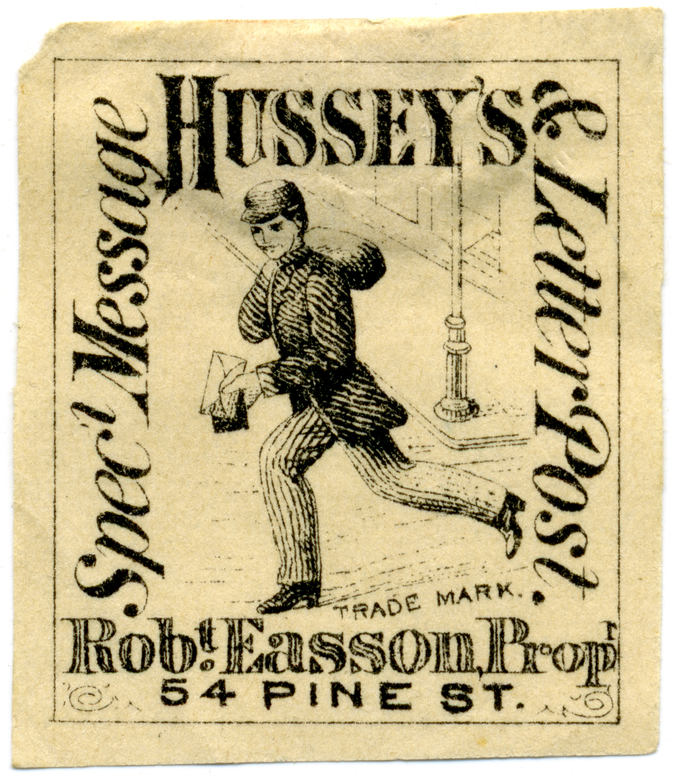 1877 local Hussey's Post US postage stamp reprint, imperforate, Scott #87L55.